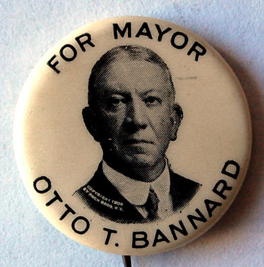 Campaign button for Otto T. Bannard (1854-1929), candidate in the three-man race for Mayor of New York in 1909 (and therefore published before 1923)